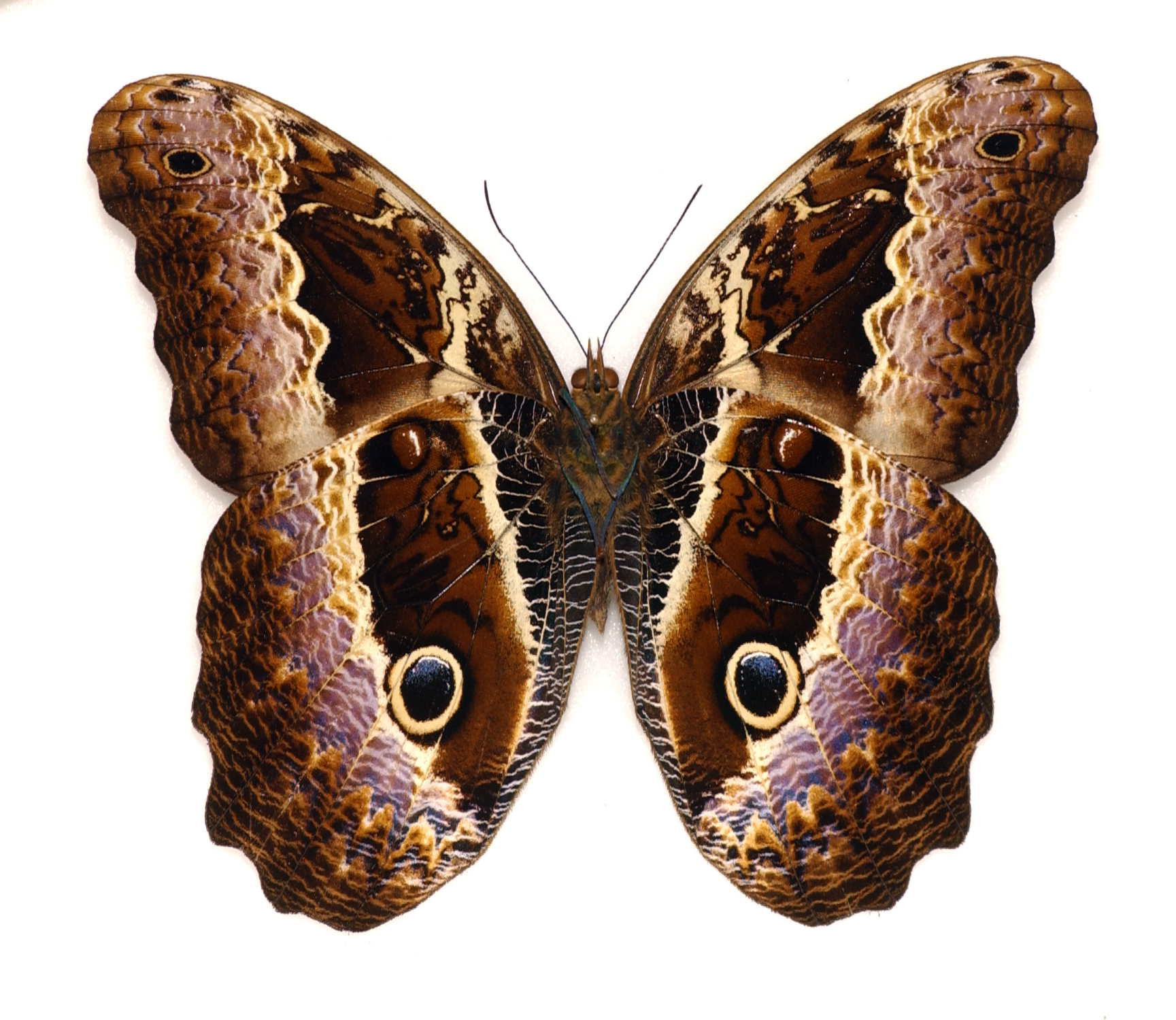 Caligo Oileus C. & R. Felder, 1861 (male; back), sometimes also known as other members of this family "owl butterfly" because of the large eyespots that evoke owls eyes. This specimen of South American forest butterfly (Venezuela, Colombia, Ecuador), of the family of Nymphalidae (subfamily Morphinae comes from the naturalists collections of Lille natural history Museum.